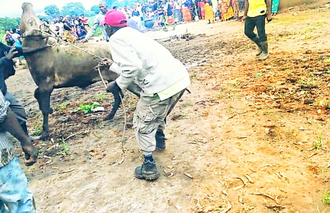 In Zambia, southern province, when one dies, a head of cows is lead at the funeral house and the one that enters the house is butchered for the people Mourning and in honor of the person that has past away. This is done three times, one cow each day. And the people celebrate the person's life. This is an image with the theme "Play" from: Zambia